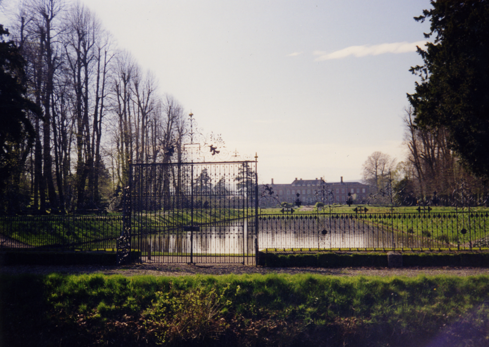 The rear of Erddig Hall, Wrexham, Wales, as seen from the gates. Photo originally taken on 35mm film camera sometime in the late 1990s. Digitally scanned on 15th July 2010.